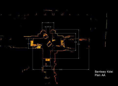 Plan of Banteay Kdei, a temple at Angkor, Cambodia, cut from a laser Scan. It is located southeast of Ta Prohm and east of Angkor Thom. Built in the late 12th to early 13th centuriesCE during the reign of Jayavarman VII, it is a Buddhist temple in the Bayon style, similar in plan to Ta Prohm and Preah Khan, but less complex and smaller. Its structures are contained within two successive enclosure walls, and consist of two concentric galleries from which emerge towers, preceded to the east by a cloister. This monastic complex is currently dilapidated due to faulty construction and poor quality sandstone. Banteay Kdei has been occupied by monks at various intervals over the centuries, but the inscription stone has never been discovered so it is unknown to whom the temple is dedicated.